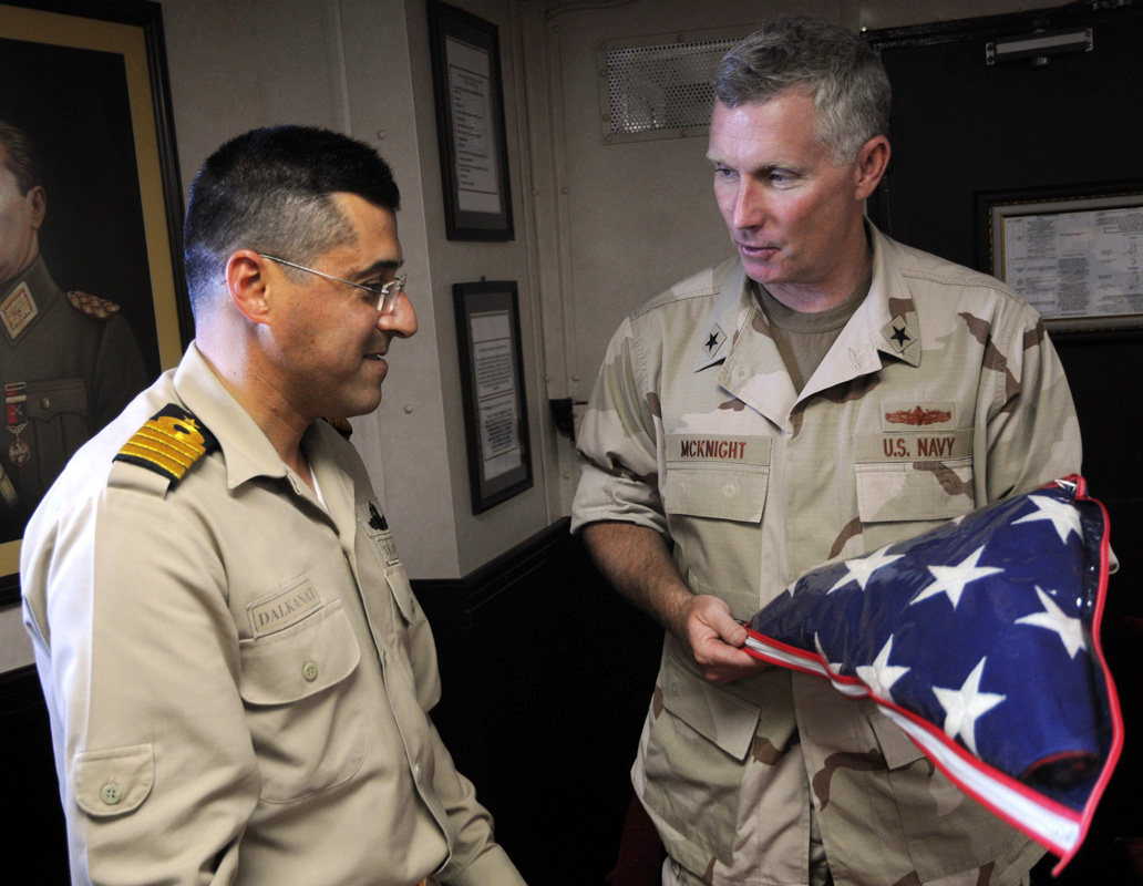 Gulf of Aden (Mar. 30, 2009) Rear Adm. Terence McKnight, commander of Combined Task Force (CTF) 151, presents an American Flag to Capt. Cenk Dalkanat, commanding officer of the Turkish Naval Forces frigate TCG Giresun (F-491), during a visit to Giresun, which is operating as part of CTF 151. CTF 151 is a multinational task force conducting counter-piracy operations to detect and deter piracy in and around the Gulf of Aden, Arabian Sea, Indian Ocean and Red Sea. (U.S. Navy photo by Lt. John Fage/Released)